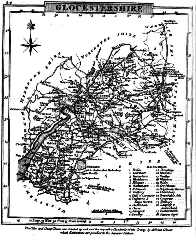 Gloucestershire